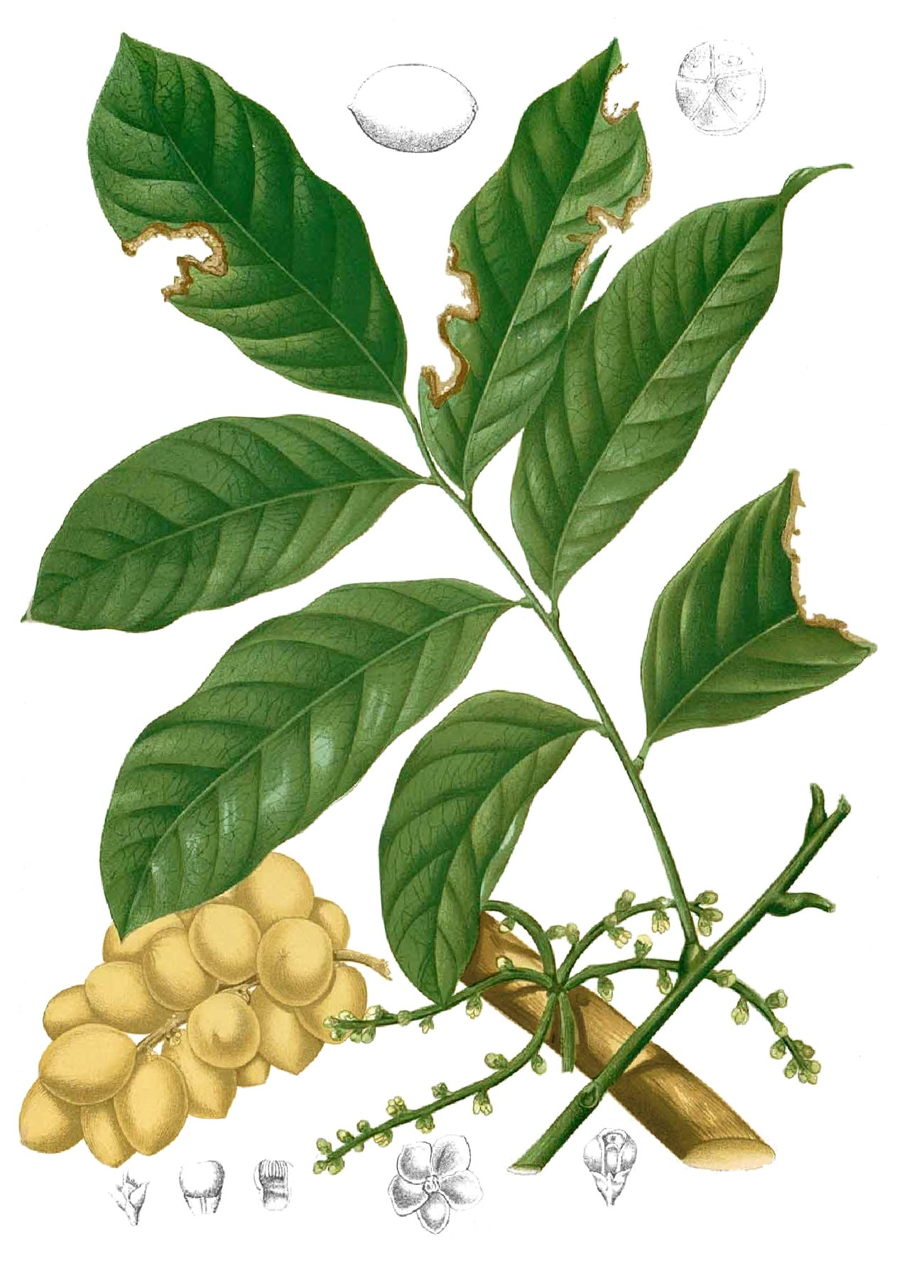 Plate from book